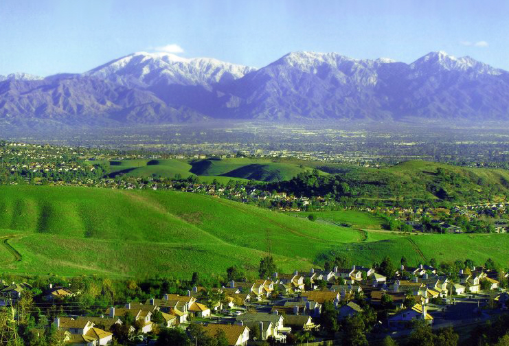 The Chino Hills (landform) and skyline of Chino Hills (city) — with the Pomona Valley beyond and the San Gabriel Mountains rising in the background. Located in San Bernardino and Los Angeles Counties, Southern California.